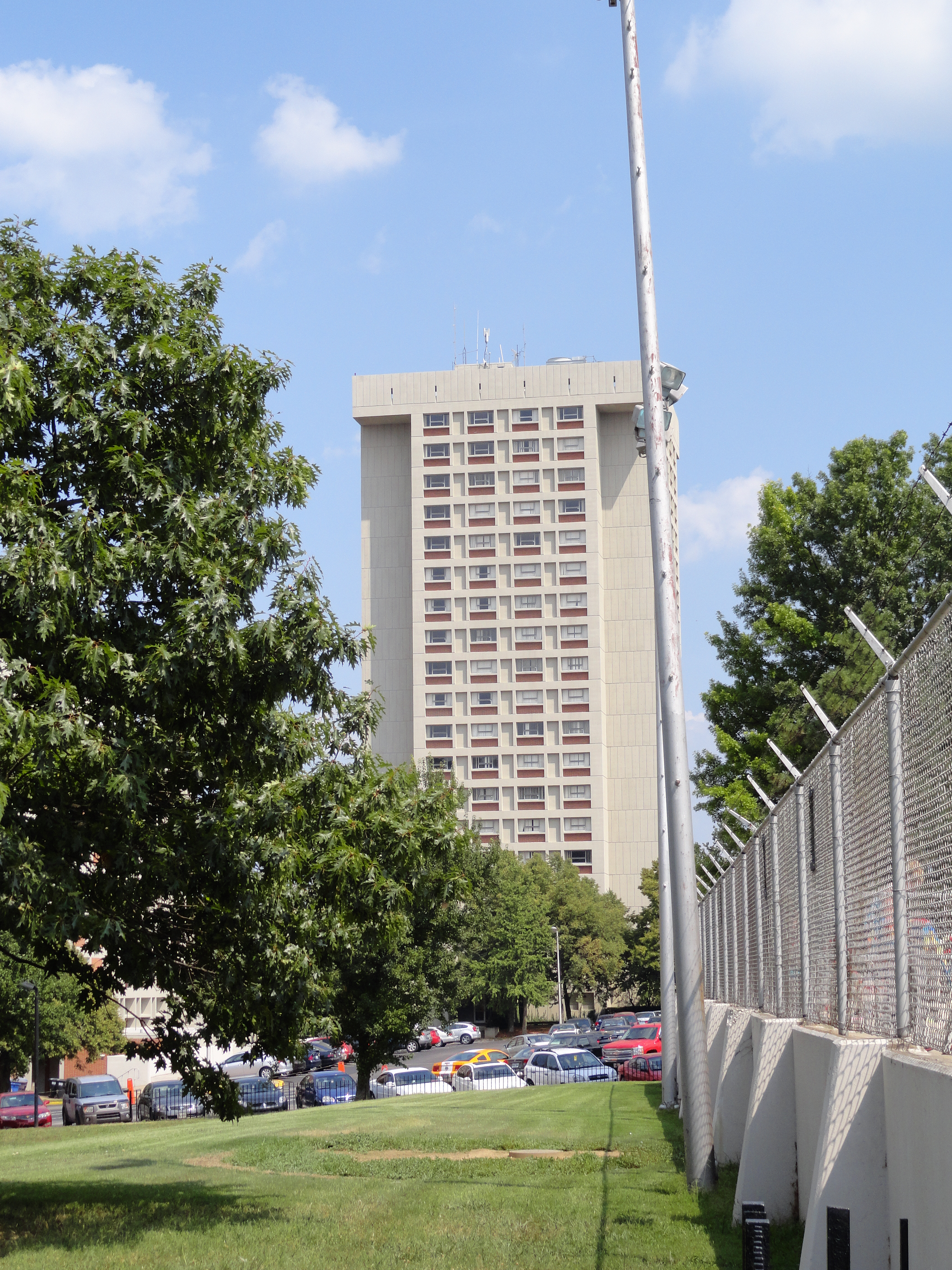 Unknown building at Eastern Kentucky University.